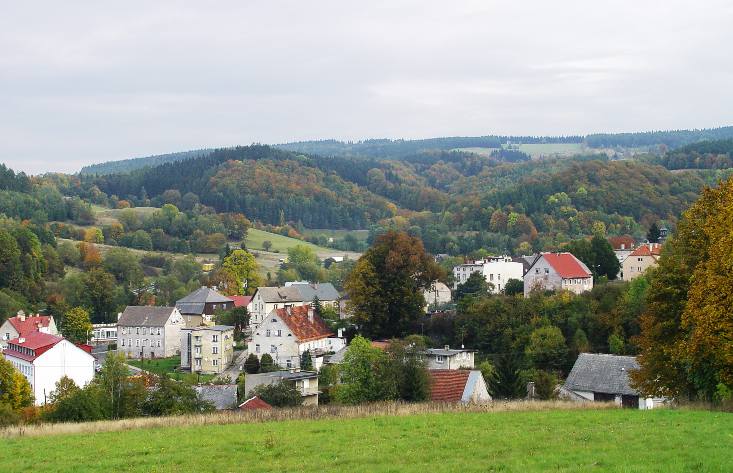 Lewin Kłodzki, a village in Lower Silesian Voivodship, Poland.